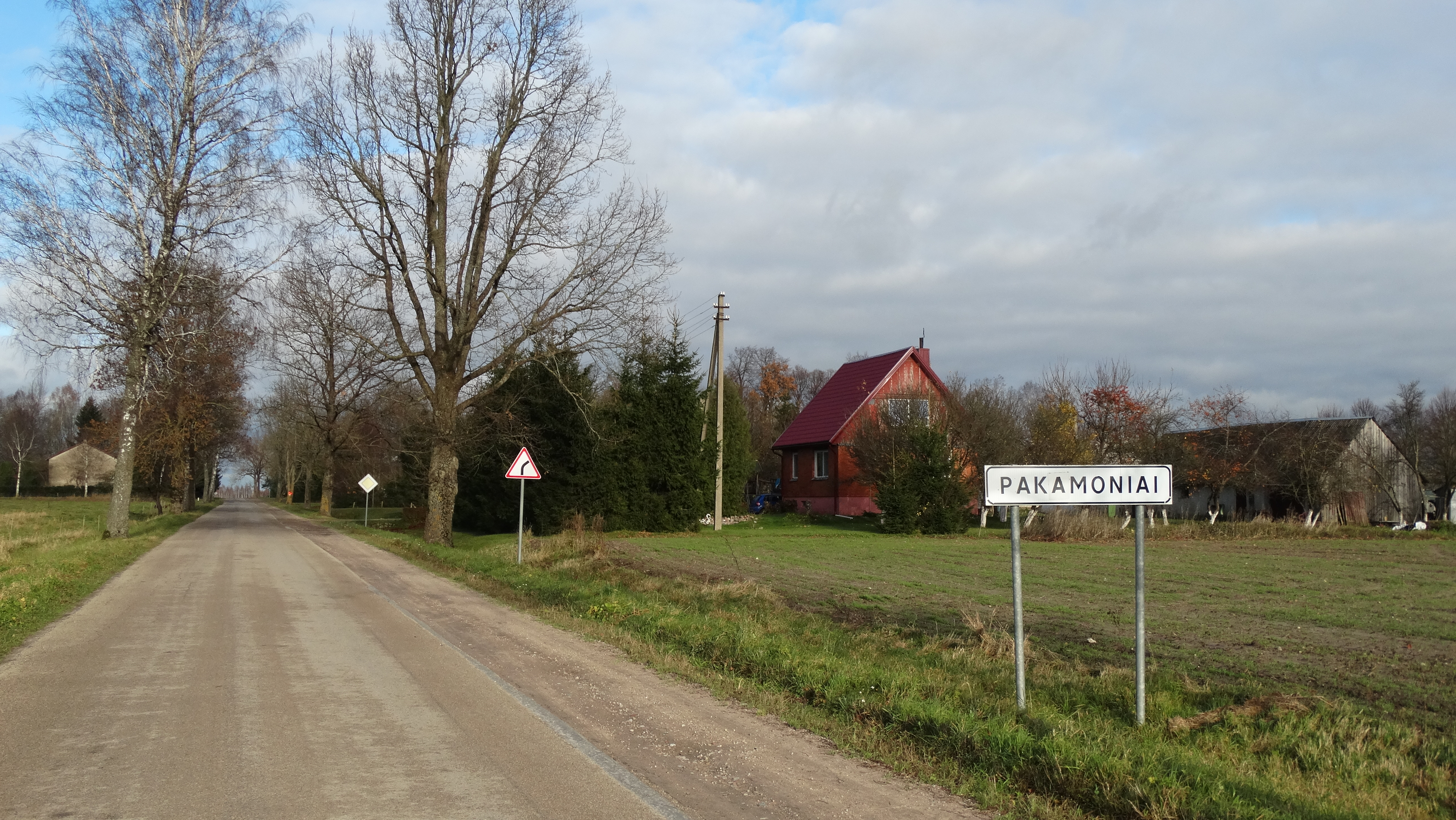 Pakamoniai, Pagėgiai Municipality, Lithuania